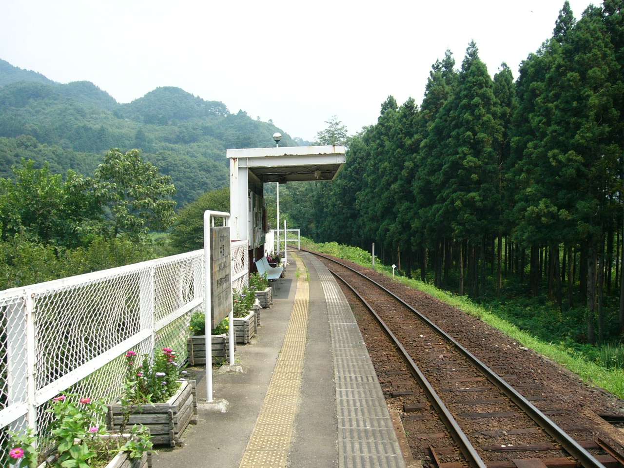 Nakano Station (Platform)